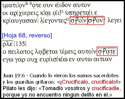 Staurograms in P. Bodmer P66. Geneva, transliterate.